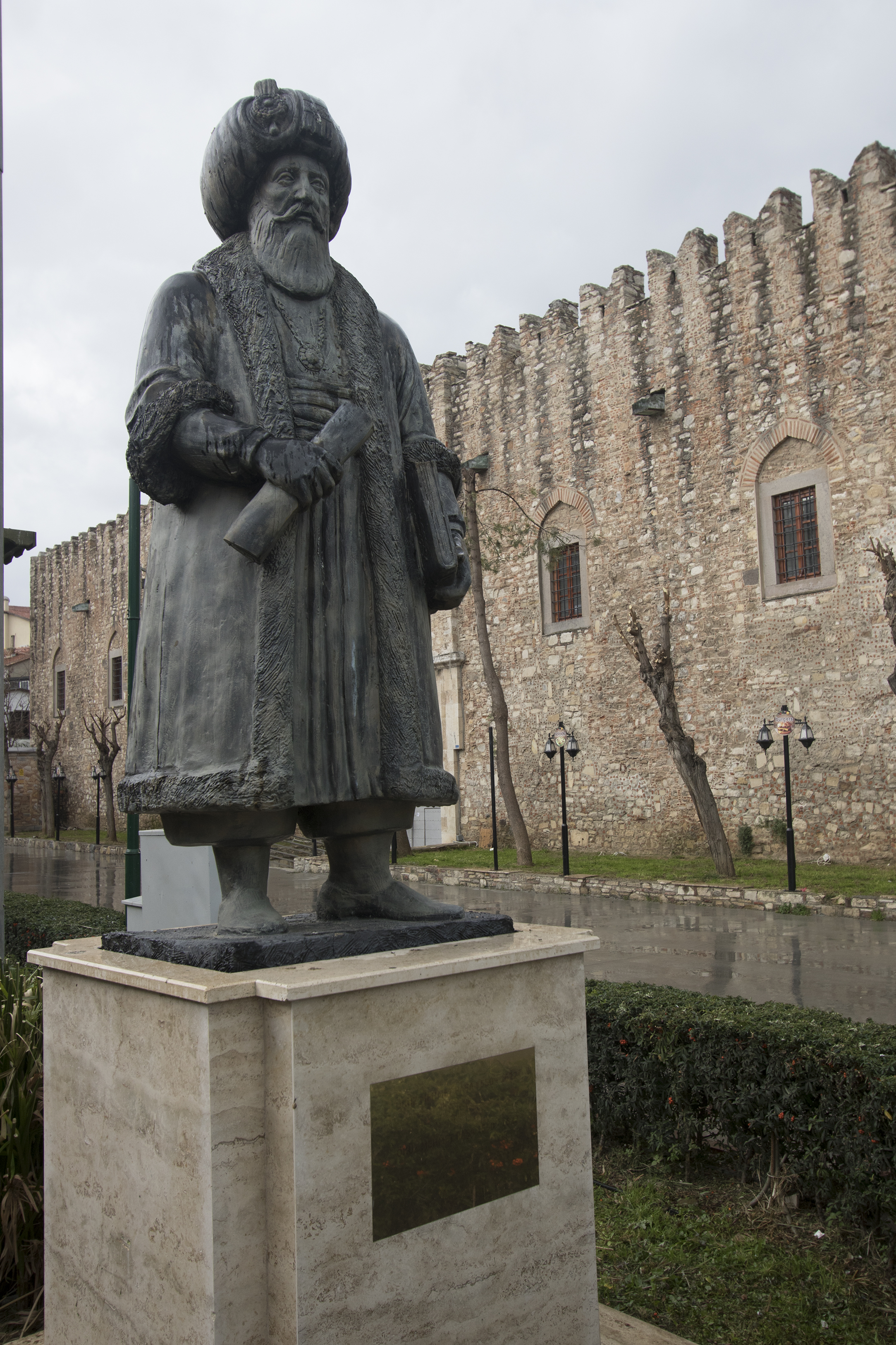 Statute of Öküz Mehmed Pasha Caravanserai. Kuşadası, Aydın - Turkey.